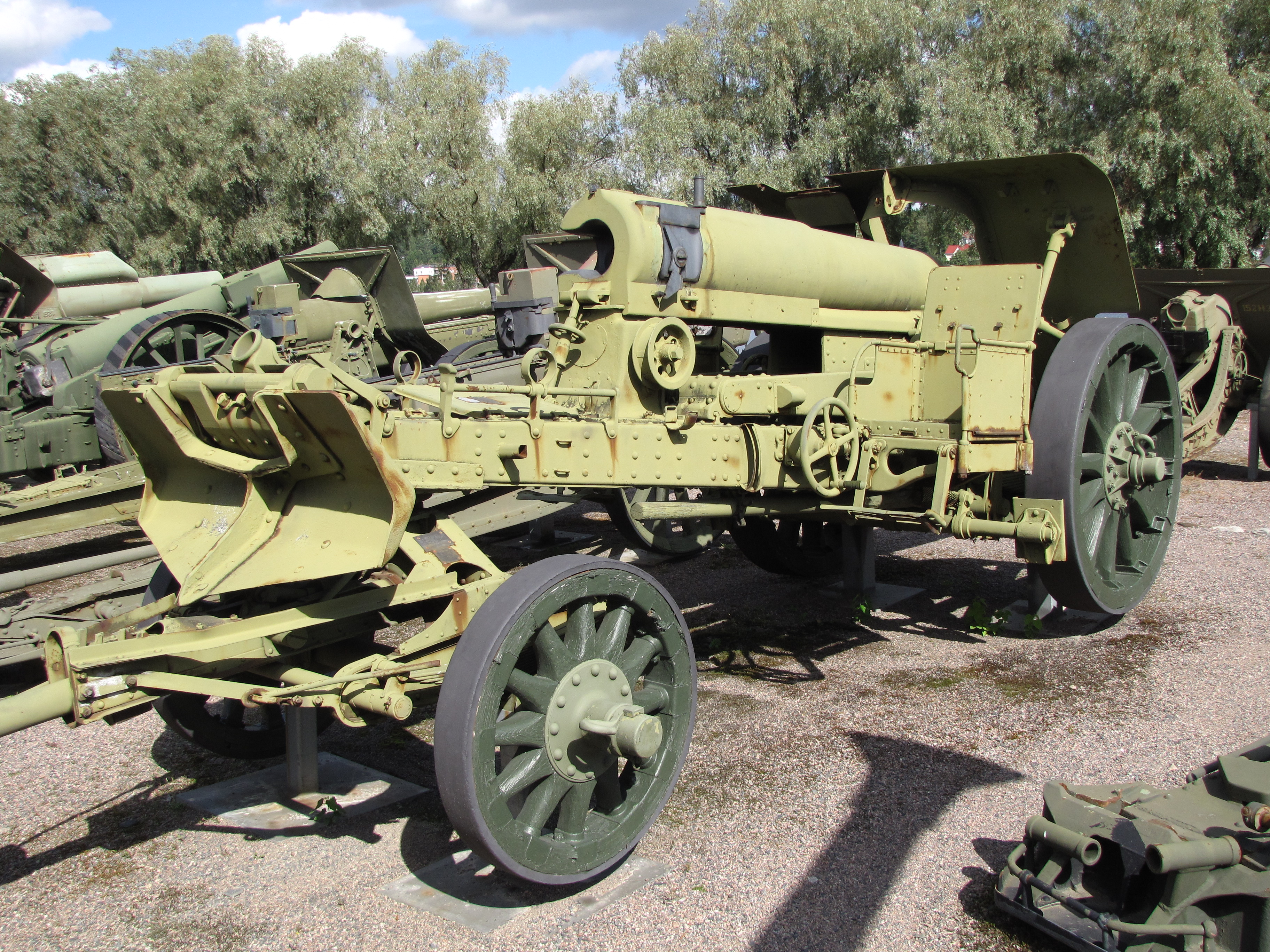 15 cm schwere Feldhaubitze M 15 in Hämeenlinna artillery museum. The gun is in travel position with the barrel pulled back and limber attached.